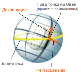 The elements of the equatorial coordinate system.